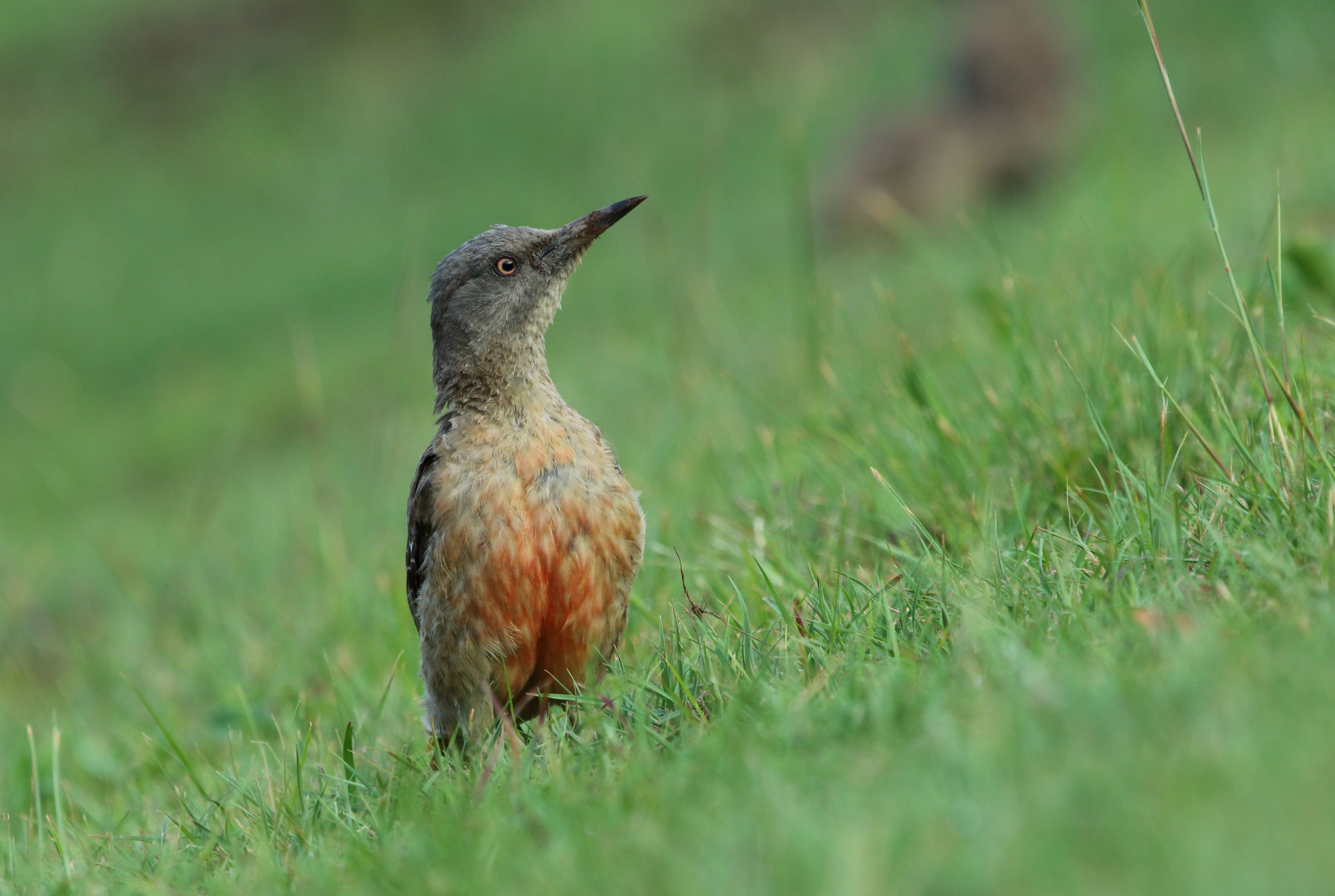 Ground woodpecker Geocolaptes olivaceus foraging. Golden Gate Highlands National Park, Free State, South Africa.